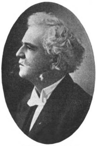 Charles H. Dillon, Congressman from South Dakota